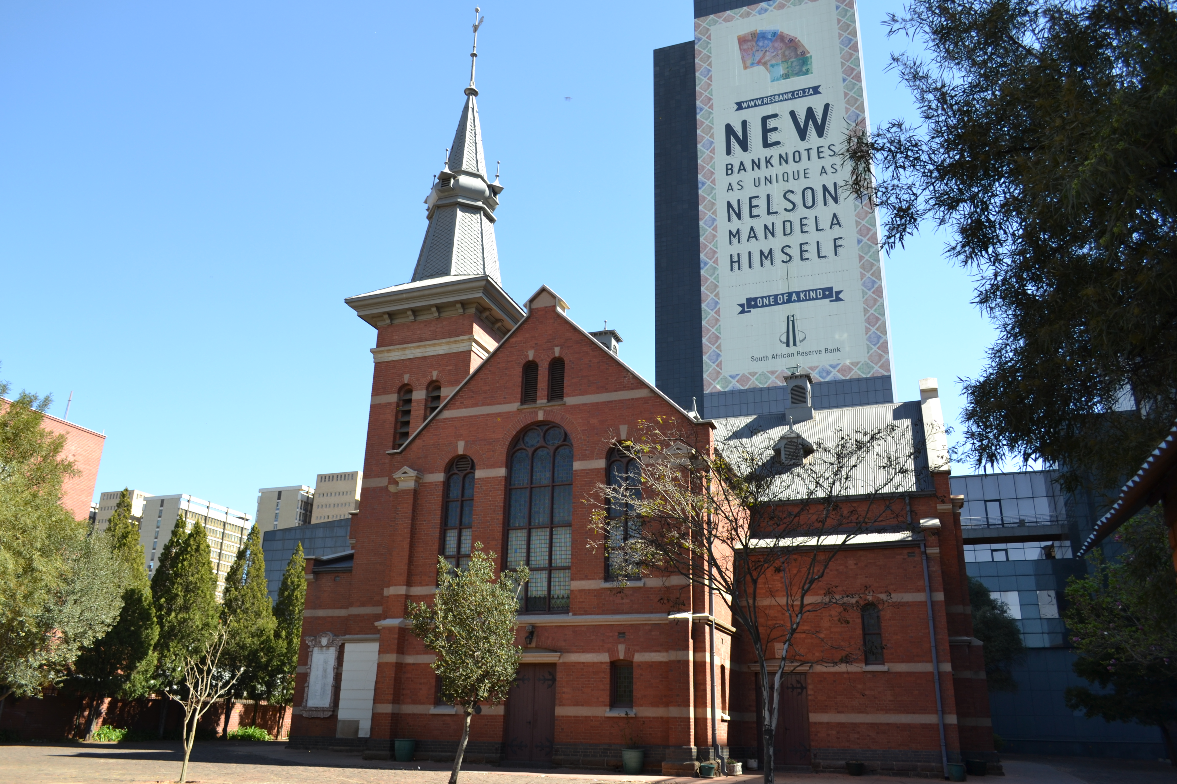 Hervormde Kerk Du Toit Street Pretoria This media shows a South African Protected Site with SAHRA file reference 9/2/258/0003.